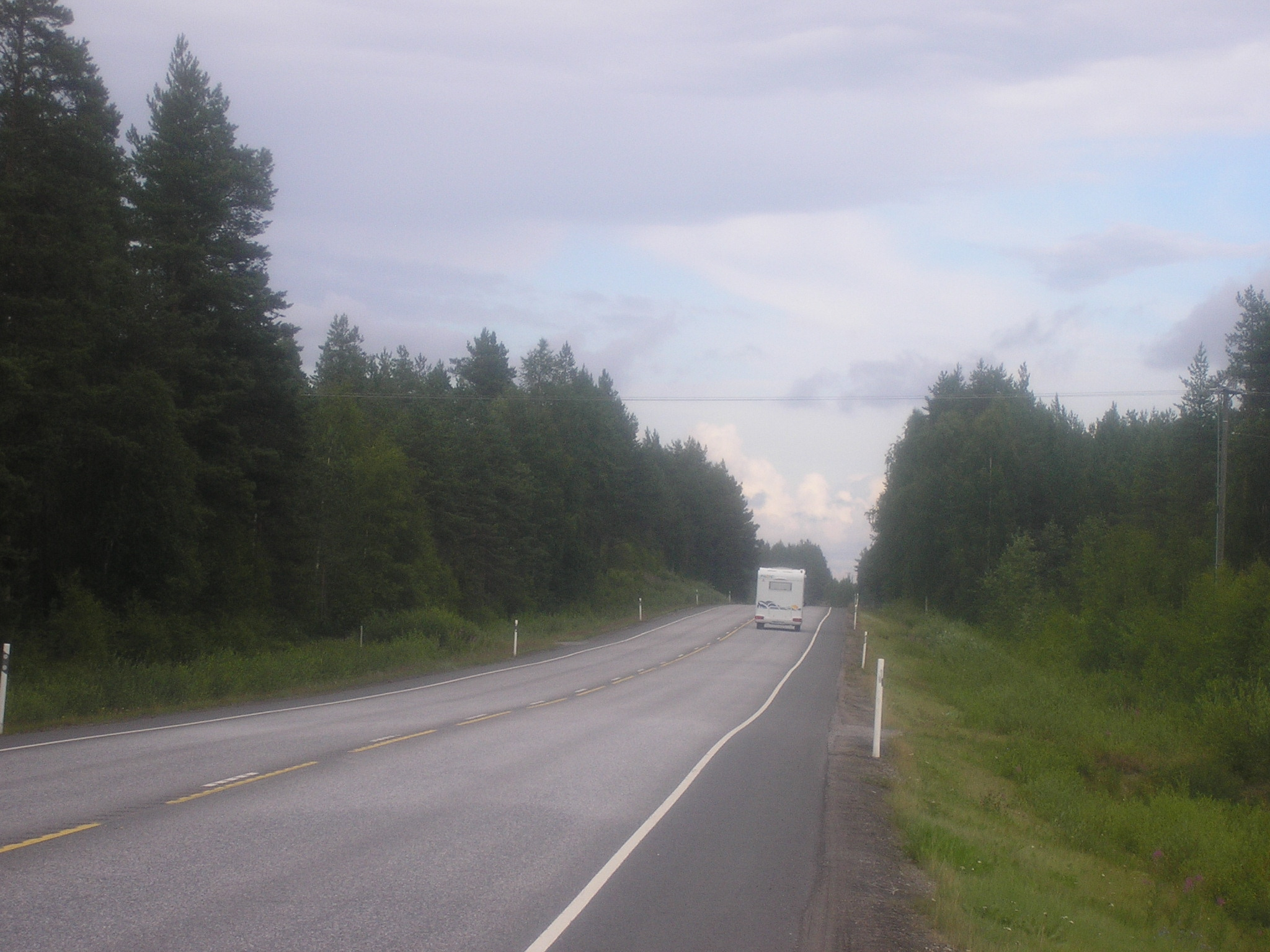 Main road 28 between Kannus and Sievi in Finland.